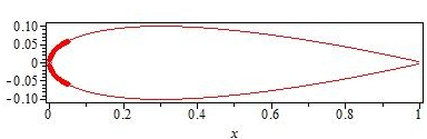 Cross section of an aerodynamic surface following airfoil NACA00xx, with leading edge emphasised